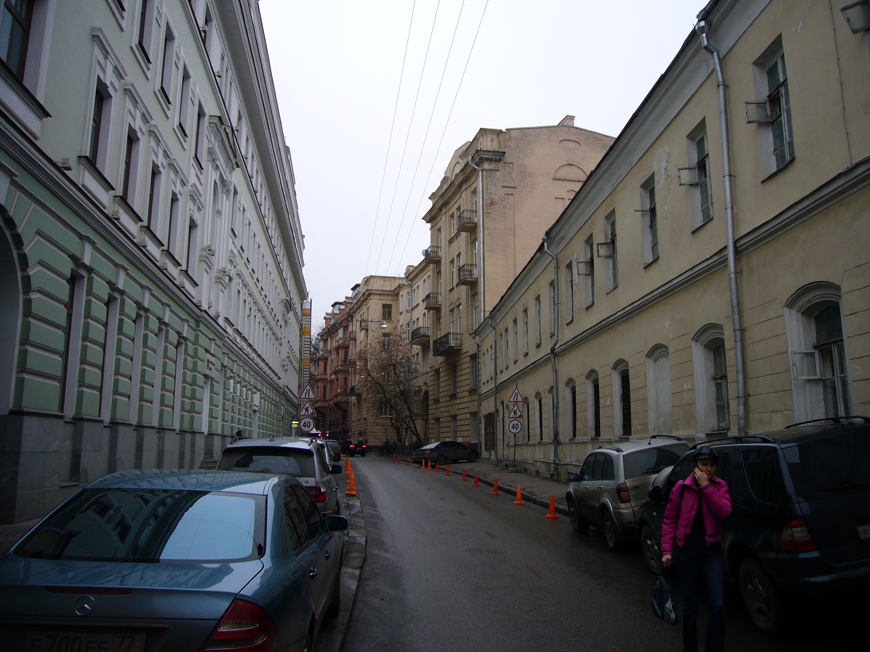 View of Romanov Pereulok from B. Nikitskaya, Moscow, Russia